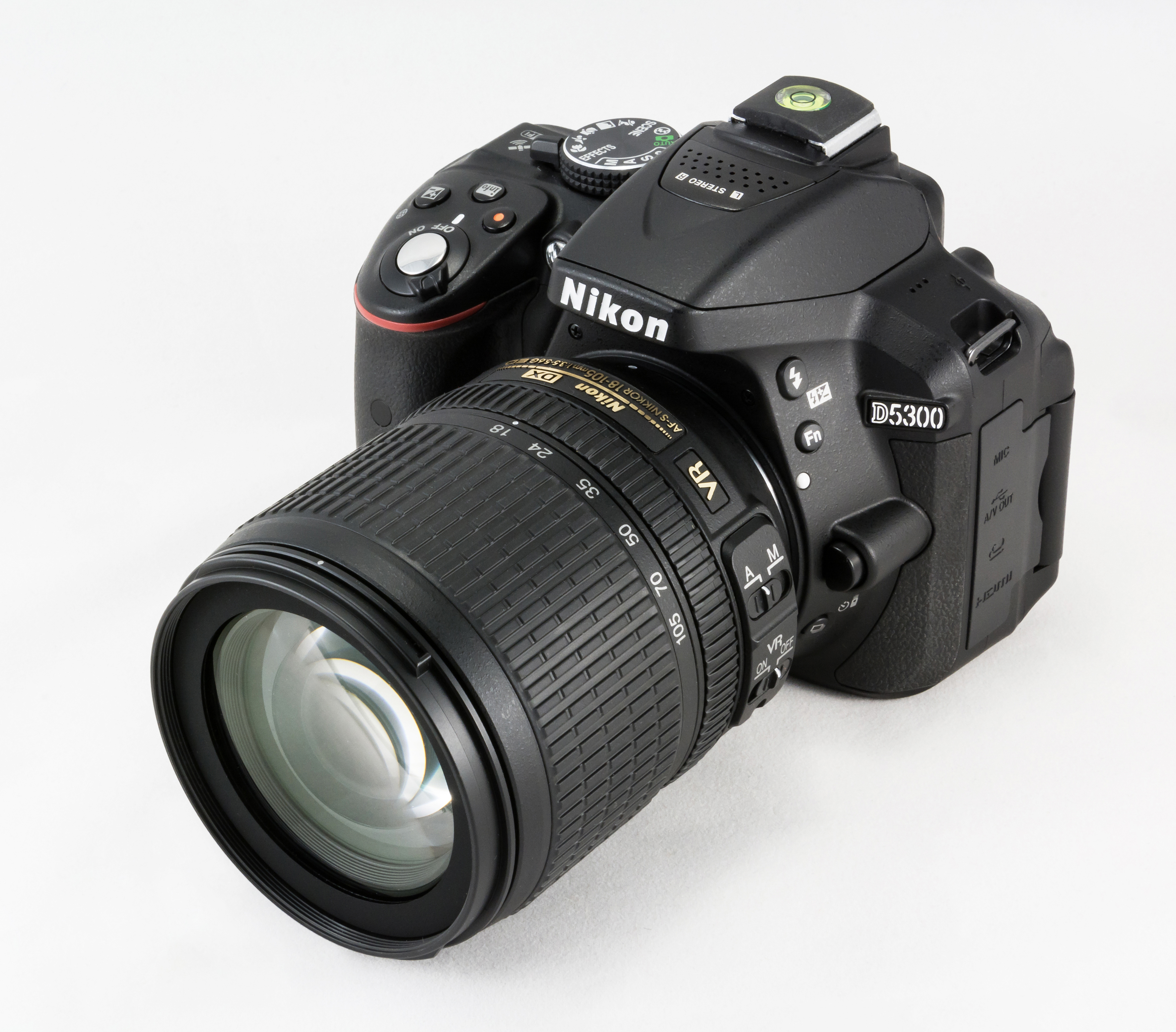 Nikon D5300 with AF-S DX Nikkor 18-105mm f/3.5-5.6G ED VR lens